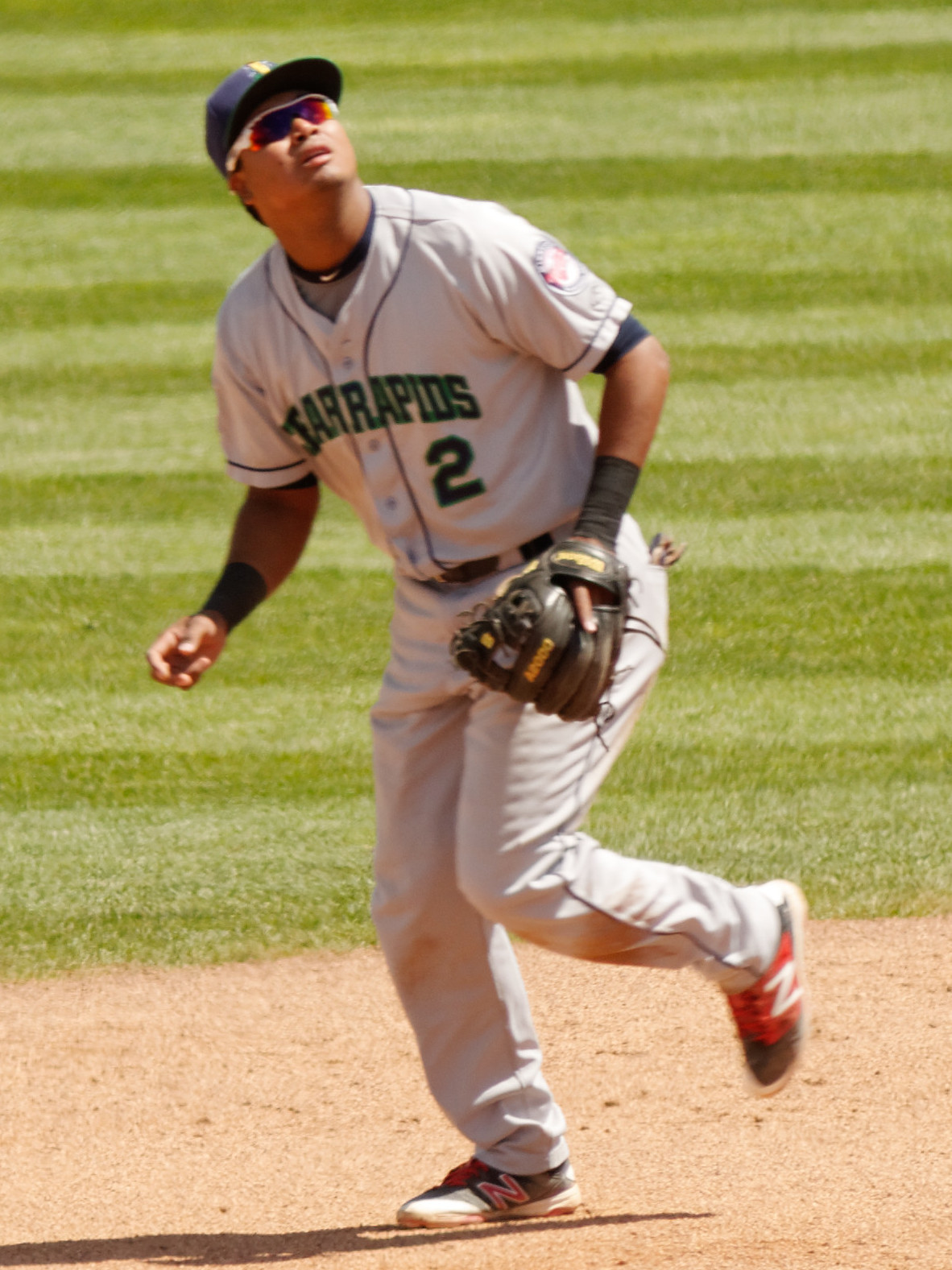 Luis Arraez of the Cedar Rapids Kernels tracks a pop up during a 2016 game at Cooley Law School Stadium in Lansing, Michigan.